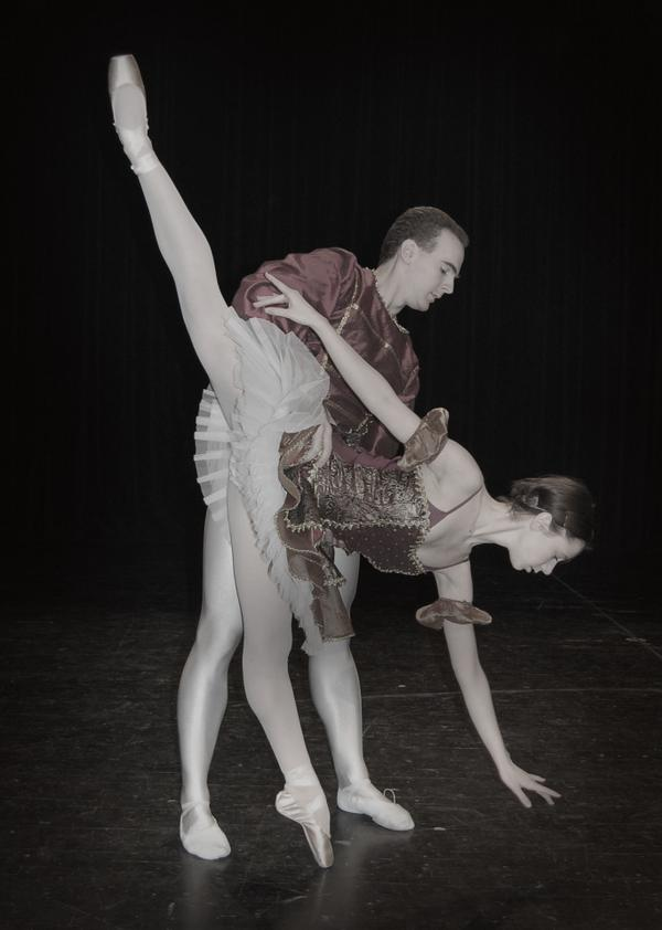 Willamette Ballet performance of The Nutcracker.